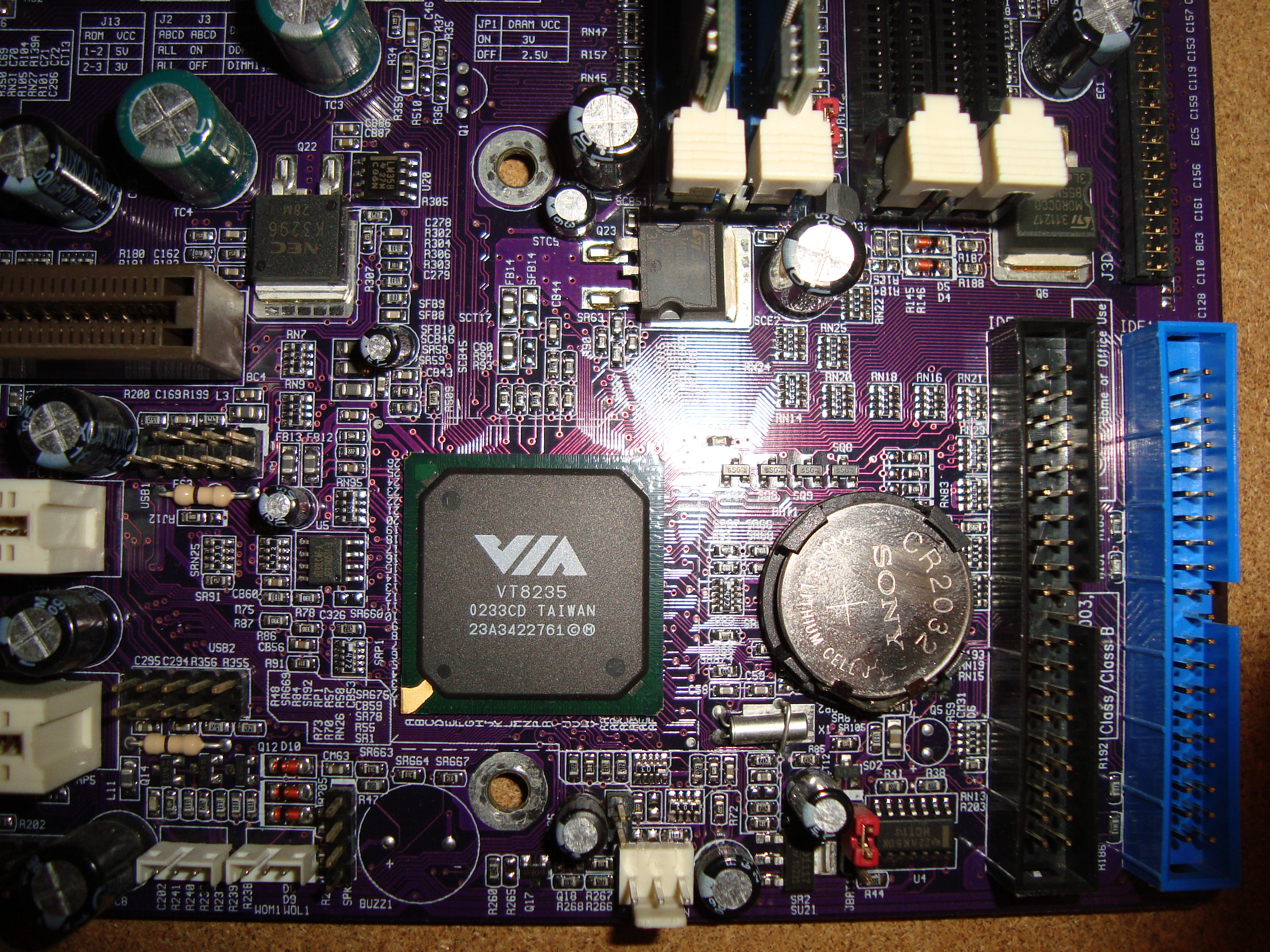 South bridge VIA VT8235